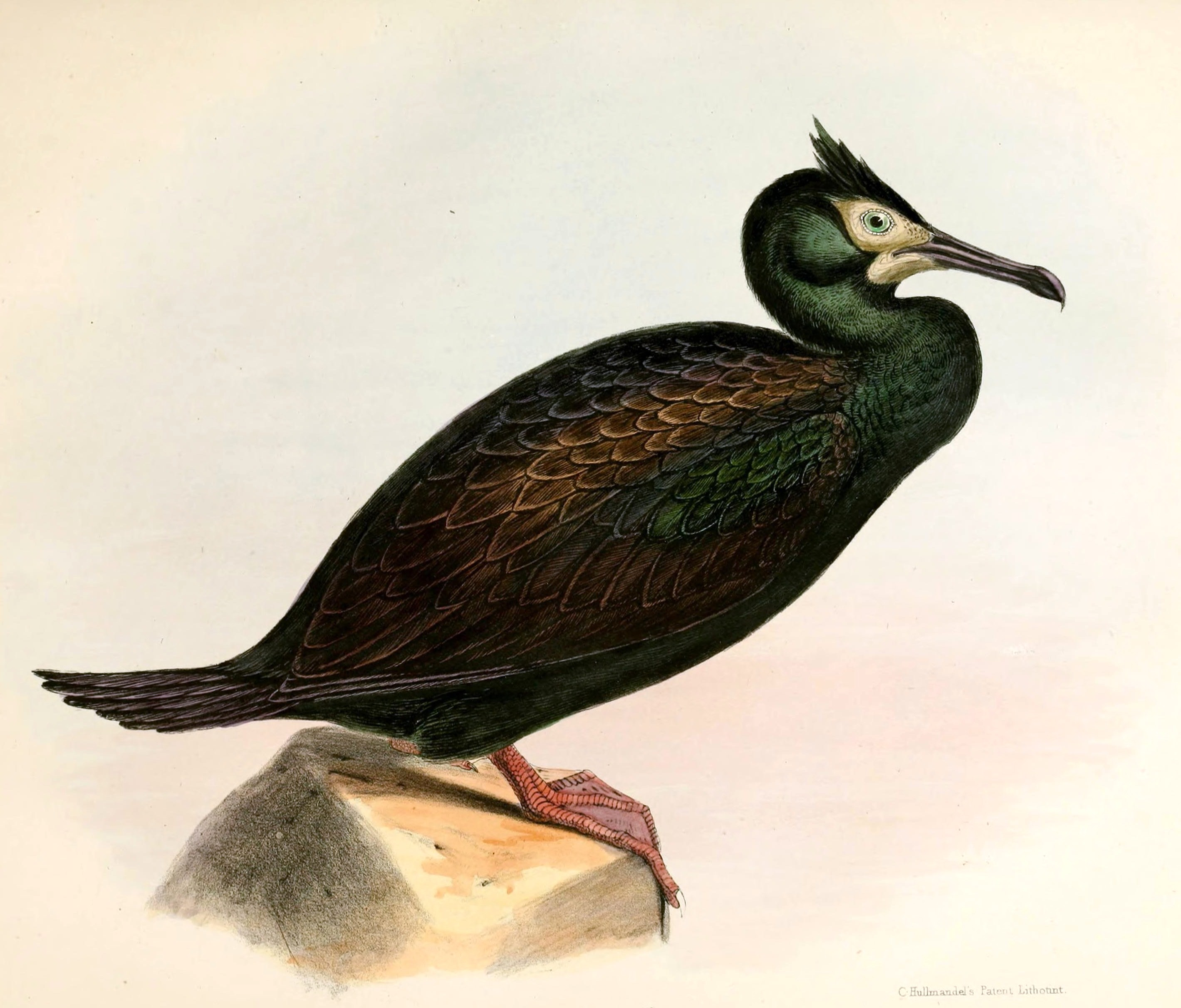 « Graculus chalconotus » = Leucocarbo chalconotus (Bronze Shag)